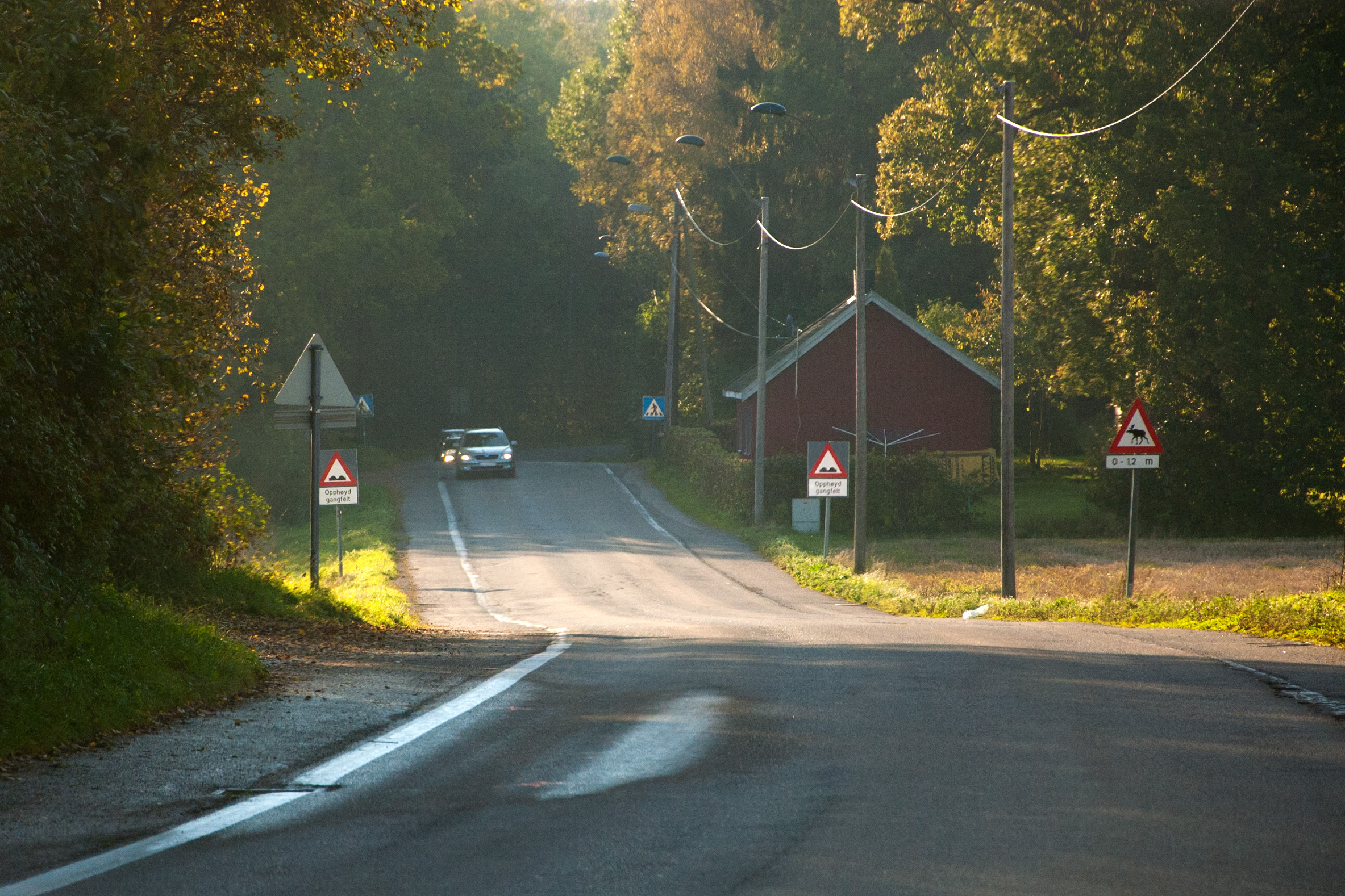 County road 509 Narverødveien in Tønsberg, Vestfold county, Norway